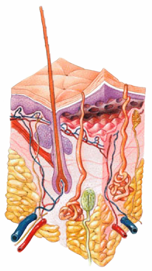 Anatomy of the human skin